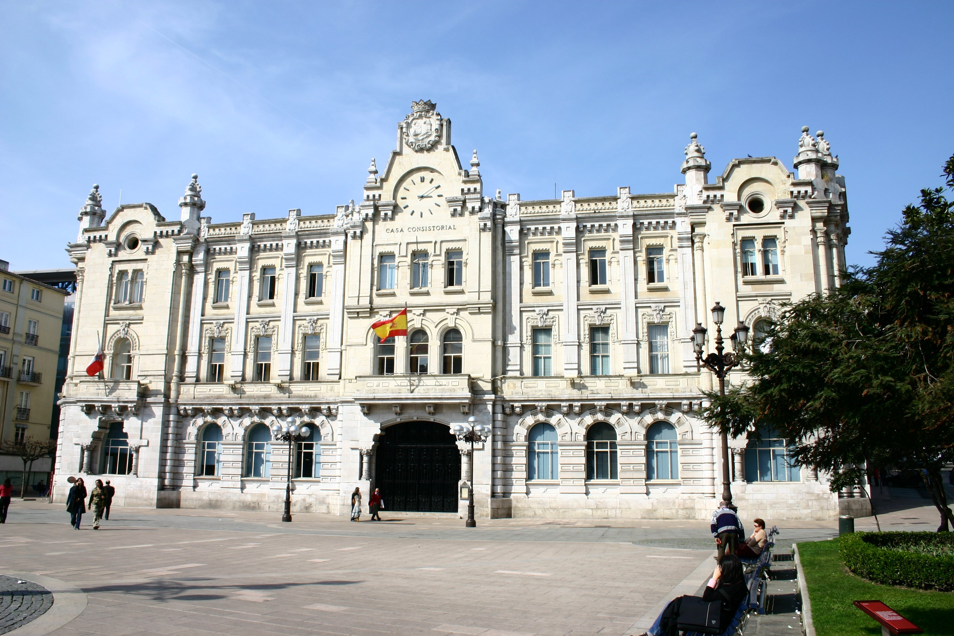 Exterior of the Town hall of Santander